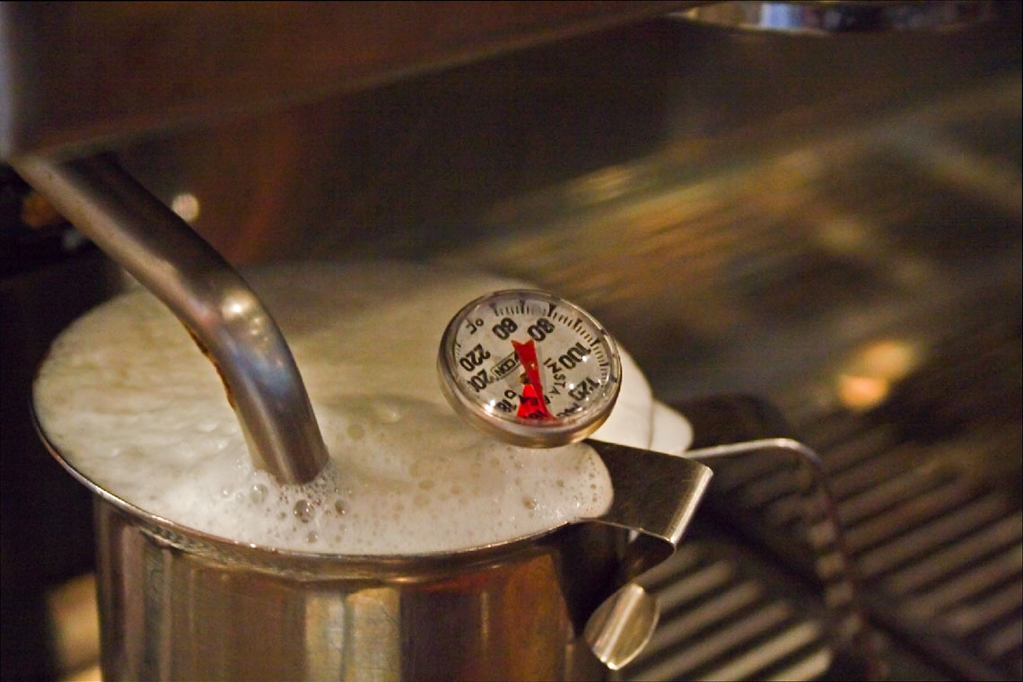 Picture of steamed milk on an espresso machine.